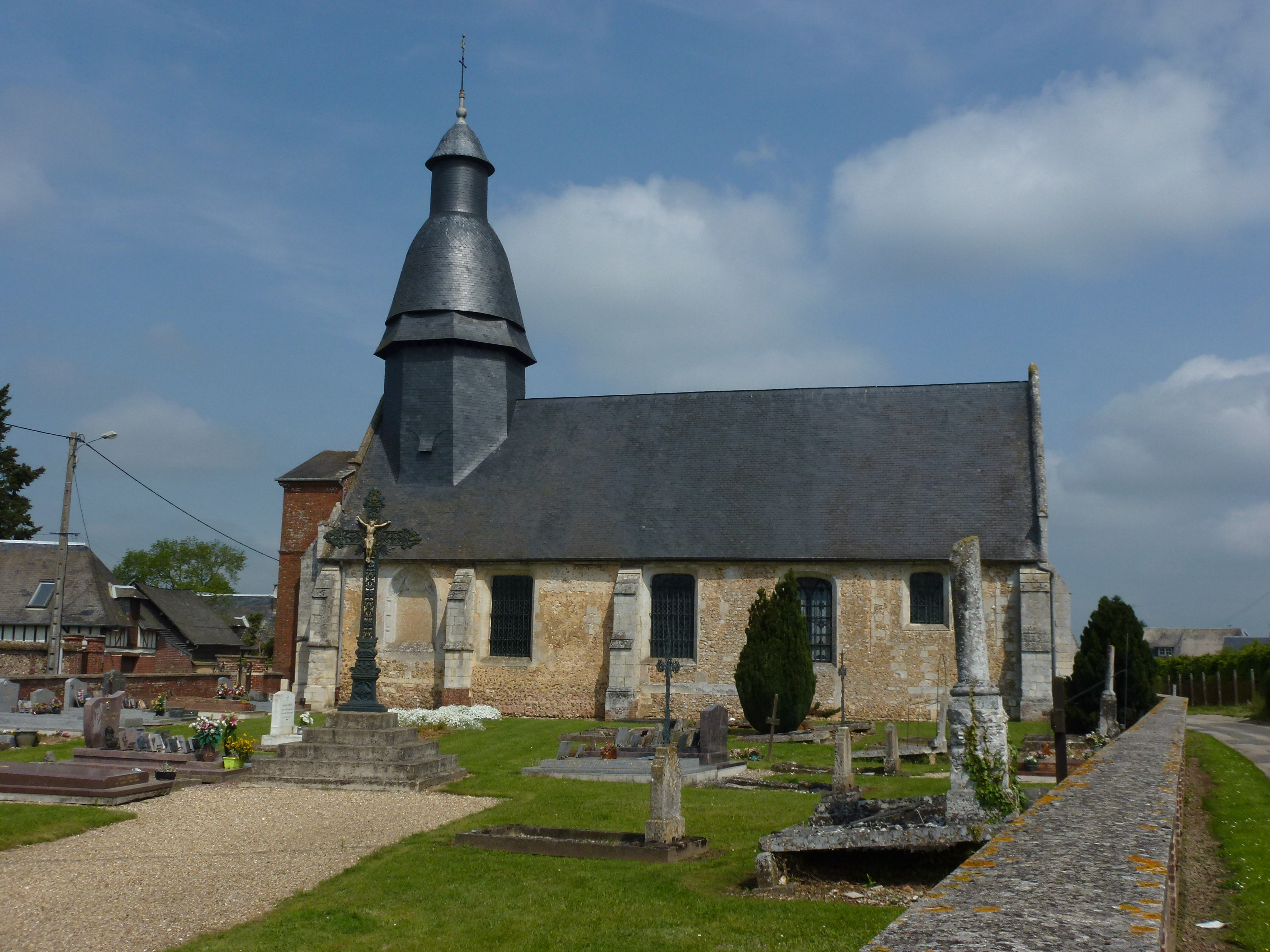 Rouge-Perriers (Eure, Fr) église Saint-Pierre.